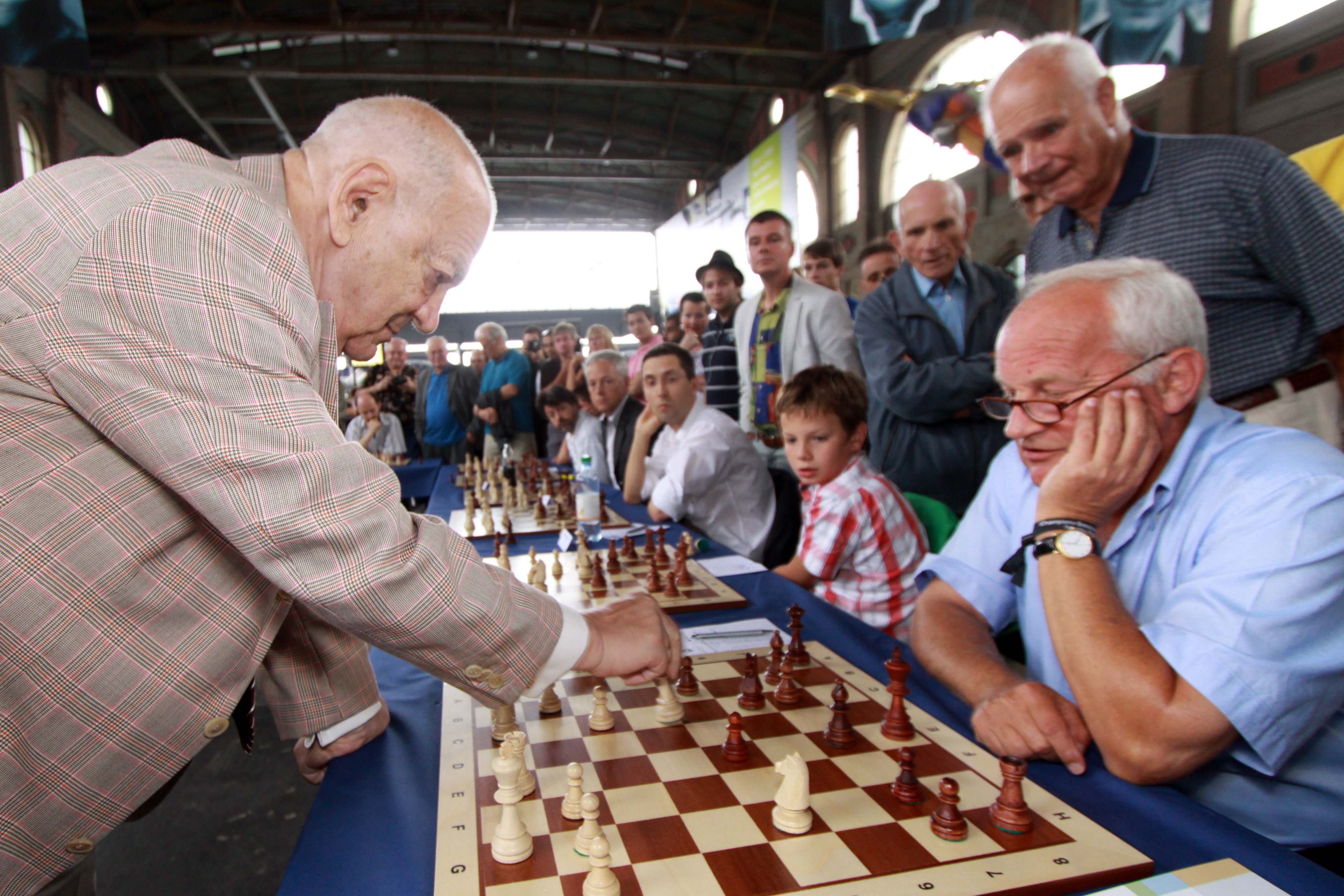 Chess grandmaster Victor Korchnoi, Switzerland.